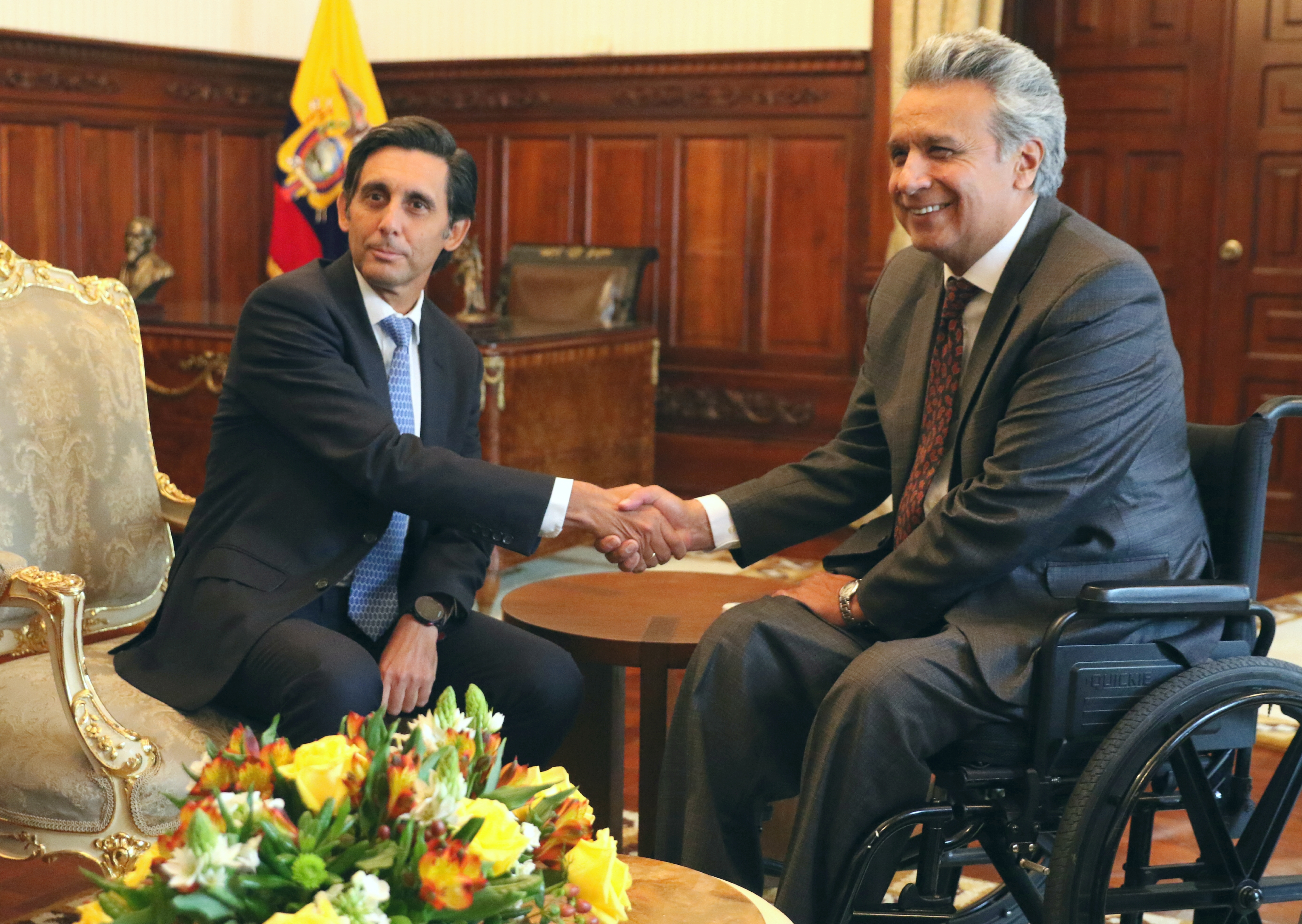 Quito, 23 de Agosto de 2017 (Andes).- El presidente de la República Lenín Moreno recibió en su despacho al Presidente Ejecutivo de Telefónica María Alvarez-Pallete (i.). ANDES/Micaela Ayala V.